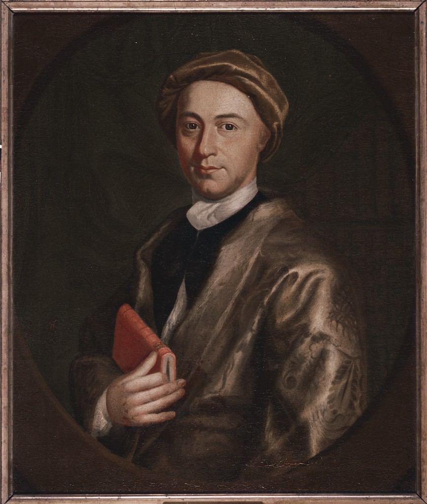 "Ezra Stiles (1727-1795), B.A. 1746, M.A. 1749," painted by American artist Nathaniel Smibert, oil on canvas, 29 in. x 24 3/4 in. Courtesy of the Yale University Art Gallery, Yale University, New Haven, Conn.